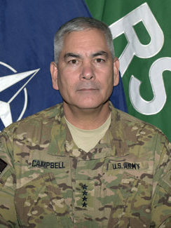 General John F. Campbell - Commander, Resolute Support and United States Forces-Afghanistan (January 2015)